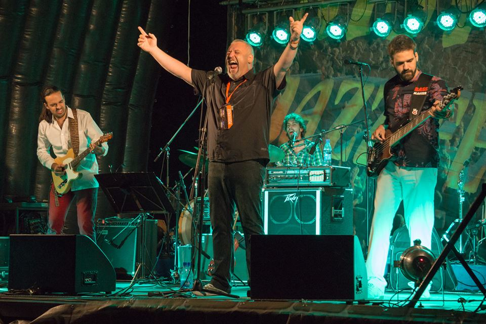 Koncertna fotografija